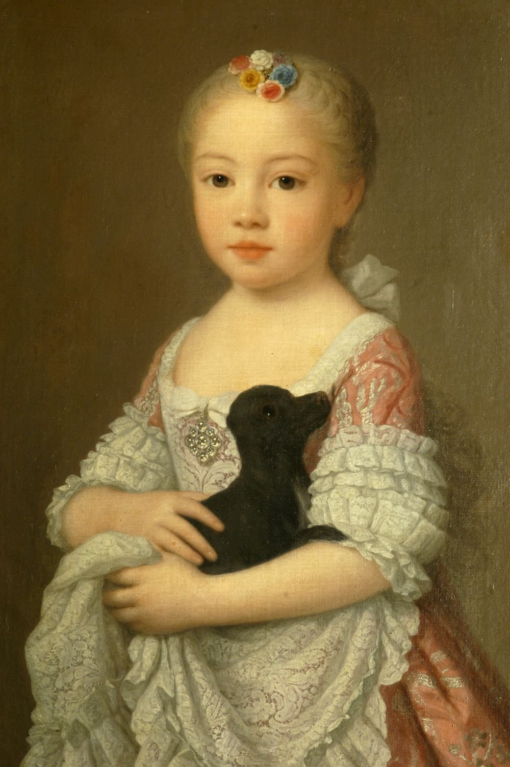 Rtratto di Maria Anna Carlotta Gabriella di Savoia. Il quadro è stato restaurato e rintelato con cambio di telaio nel 1970; il numero di inventario permette di chiarire che questa racchiudeva la tela con il ritratto di Carlo arciduca d'Austia già a Moncalieri. Il vecchio telaio del quadro ha permesso invece di seguirne le vicende perchè recava un'etichetta ottocentescacon scritto: "Maria Carolina figlia di Vittorio Amedeo III di Savoia- Dom. Duprà l'anno 1762 "ora non più visibile perchè rintelato, ma riportata sulla nuova tela ed annotato dalla Rossetti Brezzi nel 1980. Il quadro proviene da Milano, come si evince dall'inventario del Palazzo del 1912 e qui arriva da Parma dove era ancora nel 1865. E' dunque uno dei ritratti fatti fare ai Duprà per essere spediti a Don Filippo, duca di Parma e in coppia con il ritratto di Carlo Emanuele (?) in tenuta da cacciatore. Emerge però la contraddizione che se il quadro è di Domenico del 1762, il soggetto non può essere Maria Carolina, nata nel 1764; se fosse giusto il nome del personaggio, la data andrebbe spostata in avanti almeno fino al 1769-70, quando èperò i documenti di pagamento vengono solo più indirizzati a Giuseppe Duprà vista l'età avanzata di Domenico. Questo tuttavia sembra essere il vero autore dell'opera perchè ha lo stesso stile dei due ritratti del 1751 provenienti da Parma. Licensing This work is in the public domain in its country of origin and other countries and areas where the copyright term is the author's life plus 100 years or fewer. You must also include a United States public domain tag to indicate why this work is in the public domain in the United States. This file has been identified as being free of known restrictions under copyright law, including all related and neighboring rights.